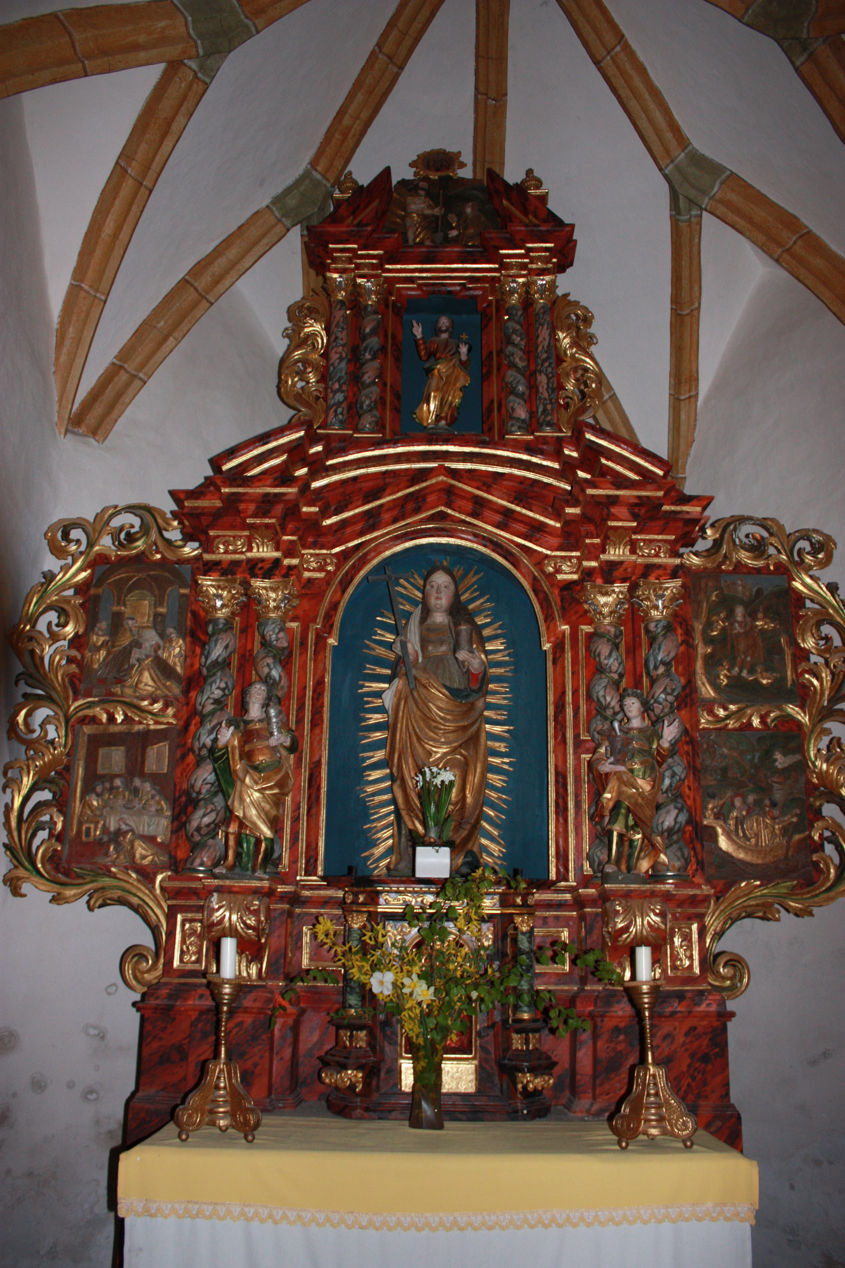 Altar for Saint Magdalena in the church at the Magdalensberg in the community of Magdalensberg